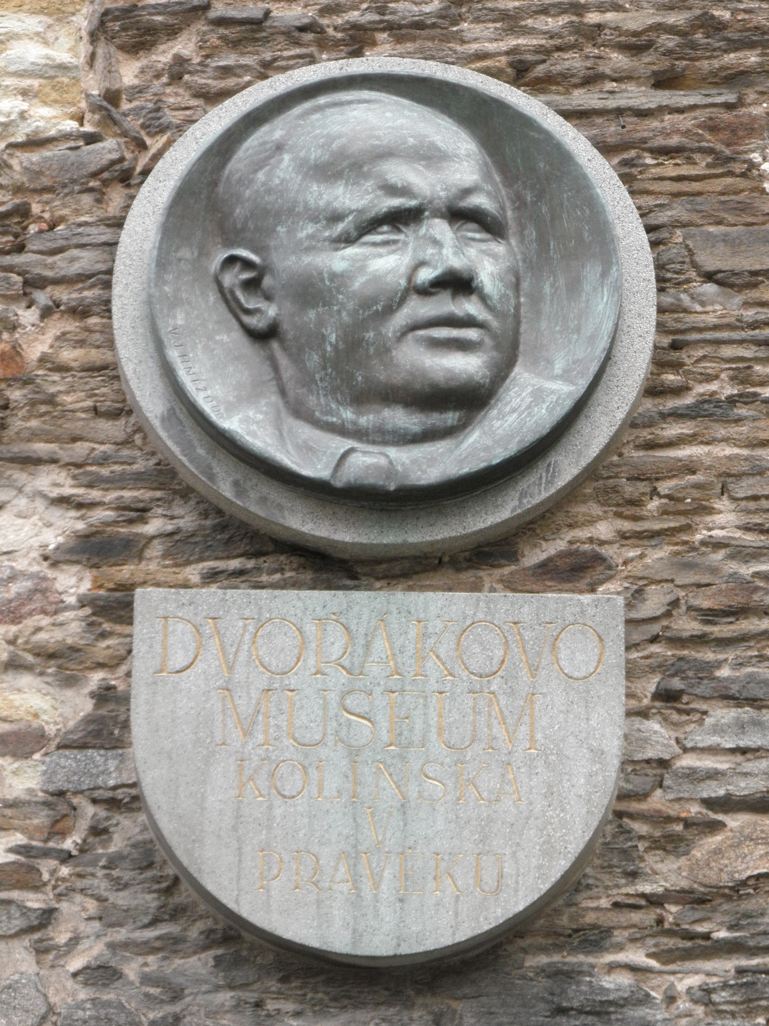 Memorial plaque dedicated to archeologist František Dvořák in Kolín (Czech Republic).